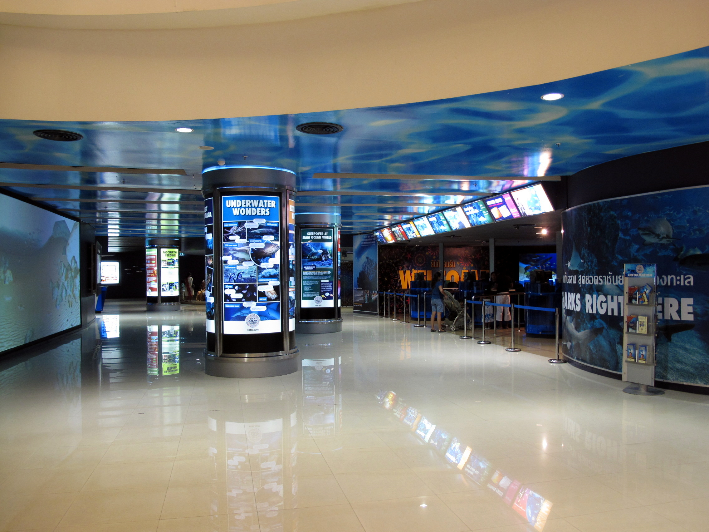 Siam Ocean World Enterance